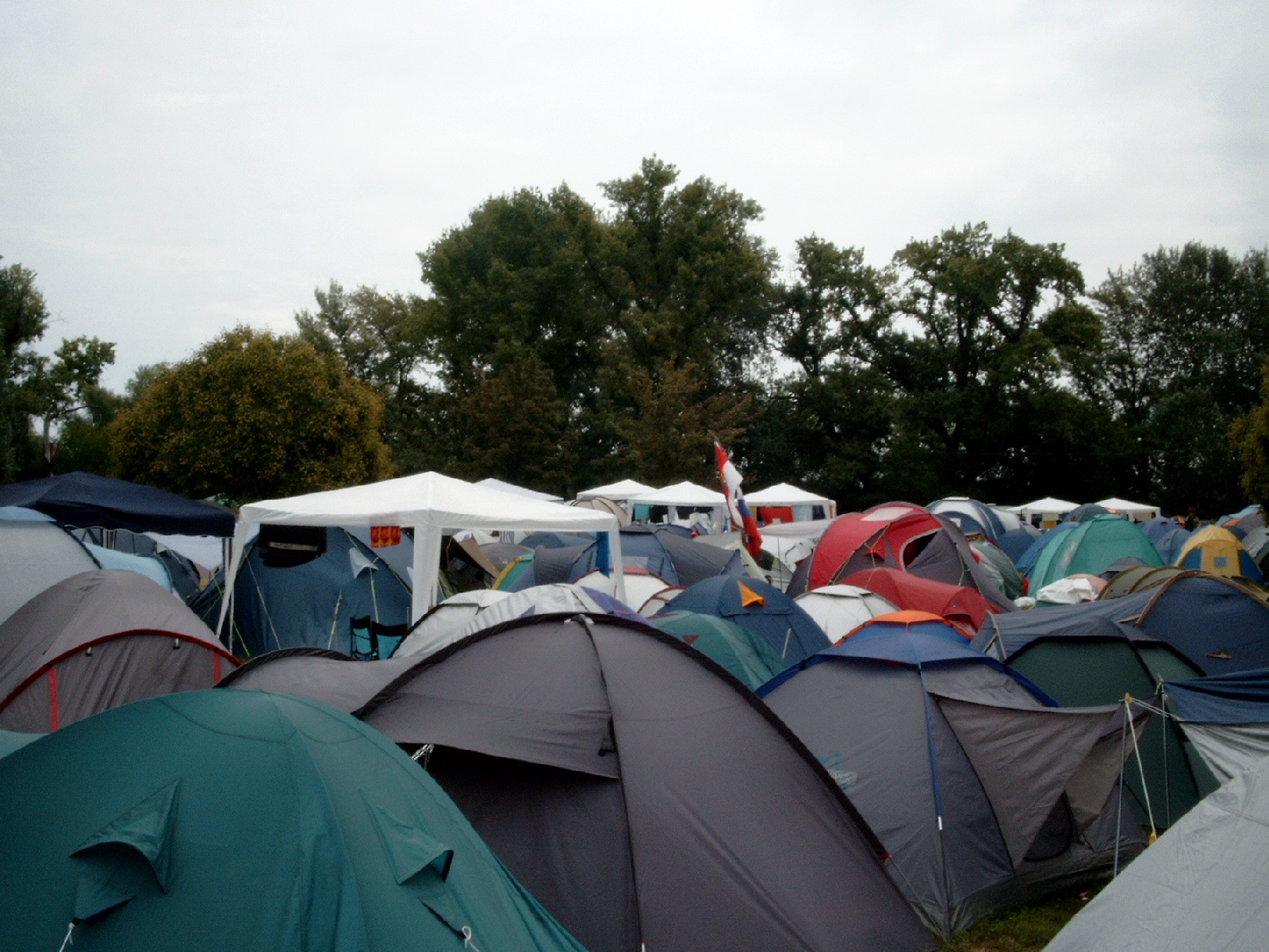 A lot of tents at the Sziget Festival 2005 in Budapest, Hungary